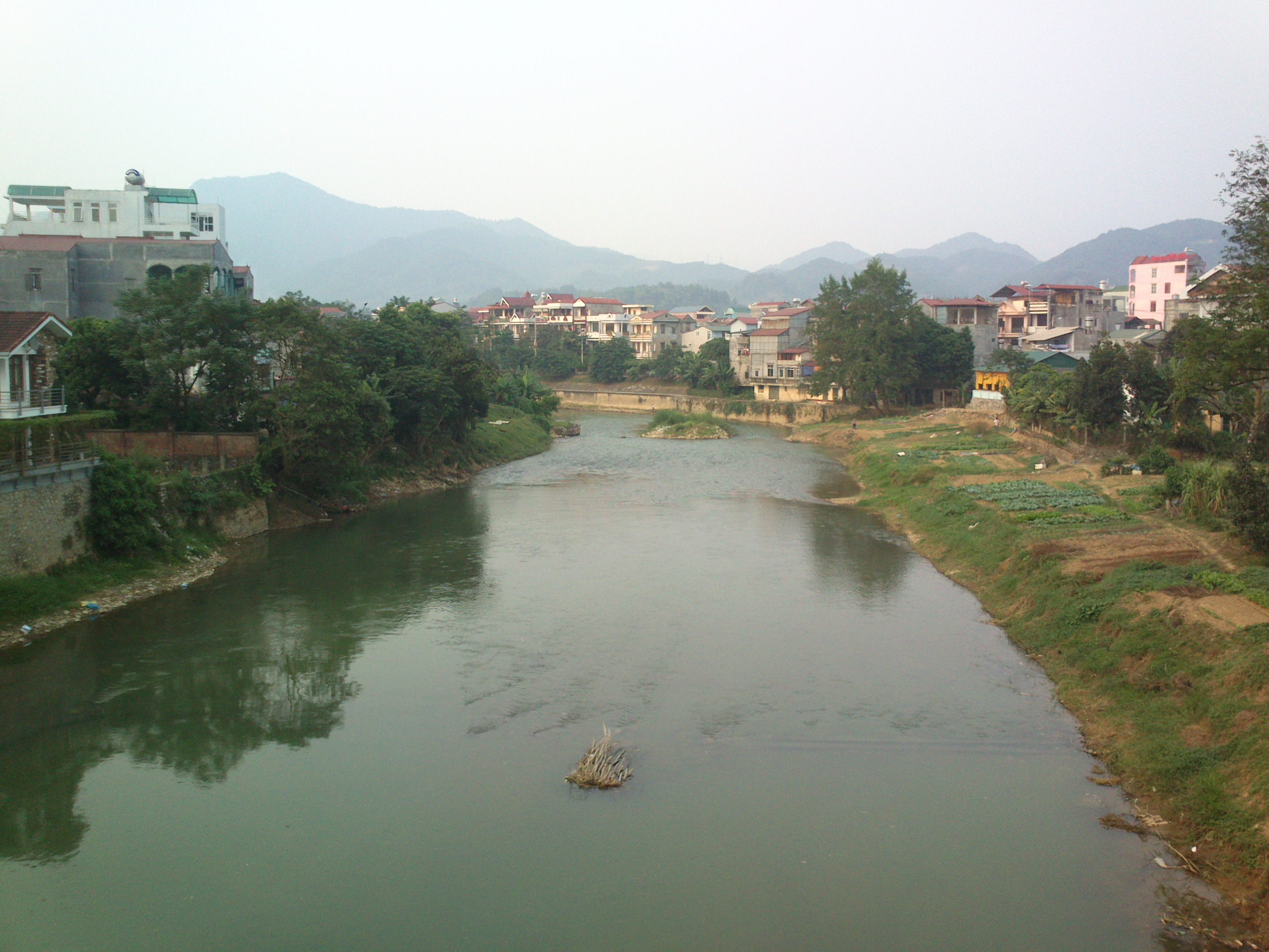 Hiến River in Cao Bằng City, Việt Nam.